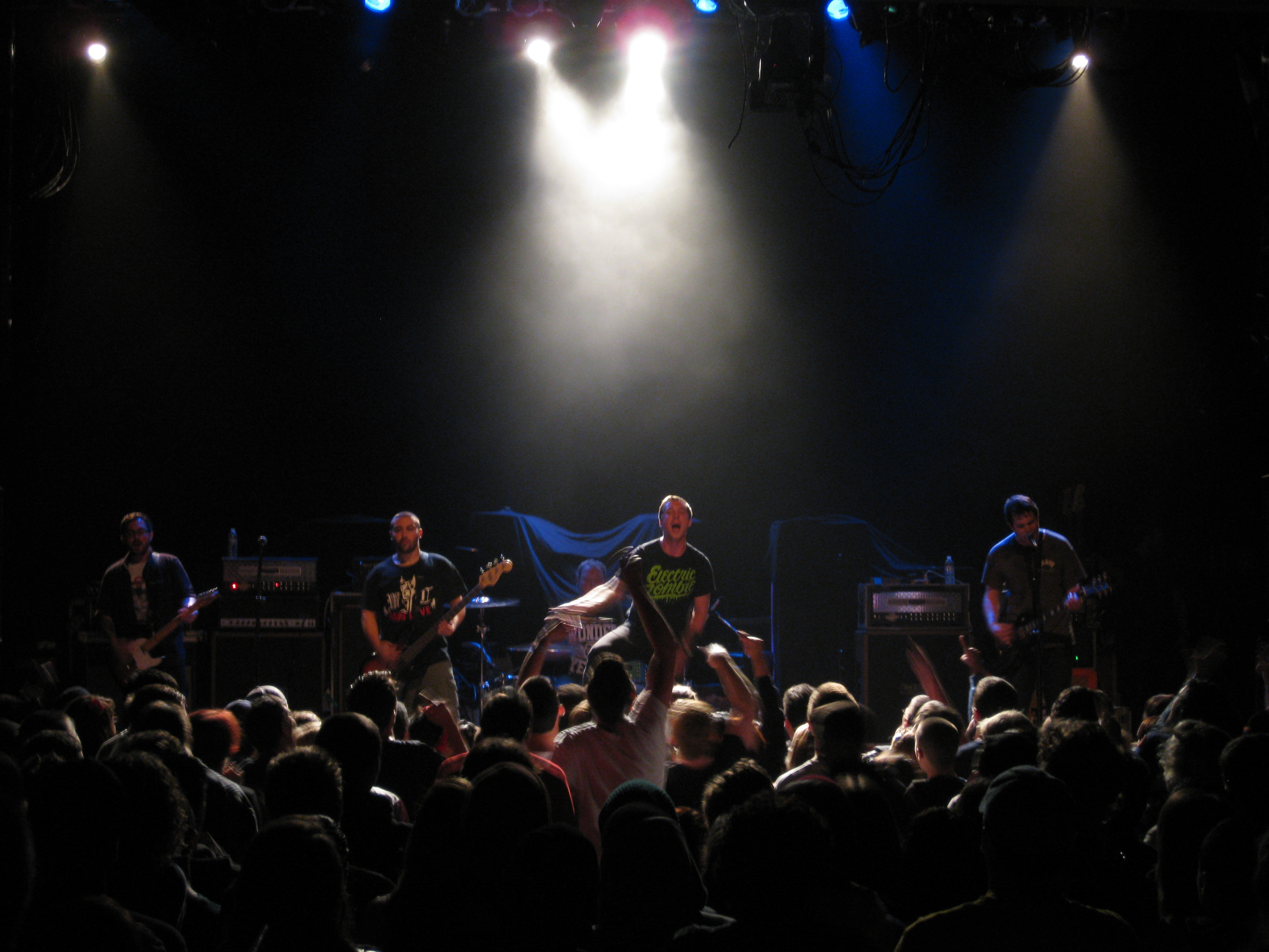 This Time Next Year performing November 20, 2011 at the House of Blues in San Diego, California, as part of the "Pop Punk's Not Dead" tour. Left to right: guitarist Denis Cohen, bassist Travis Pacheco, drummer James Jalili, singer Pete Dowdalls, and guitarist Brad Wiseman.